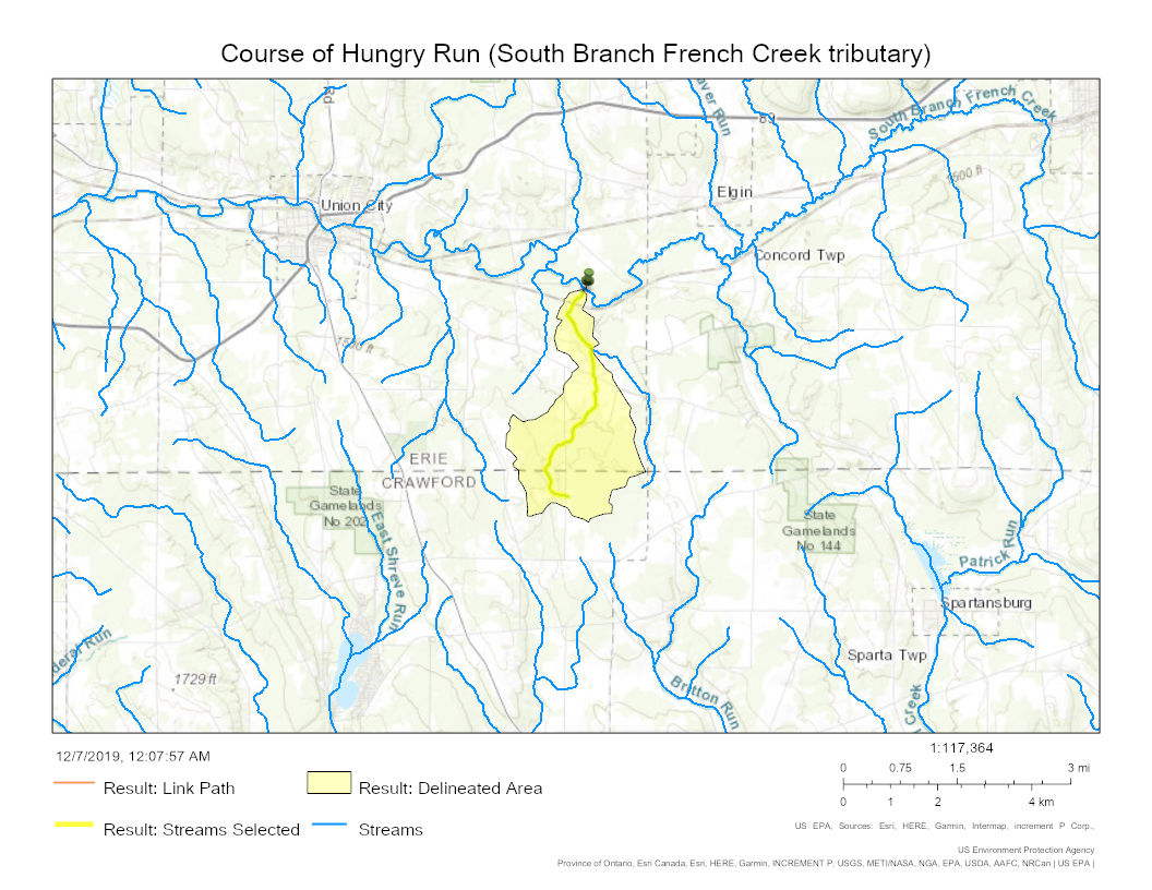 Map of the course of Hungry Run (South Branch French Creek tributary) in Crawford and Erie Counties, Pennsylvania.